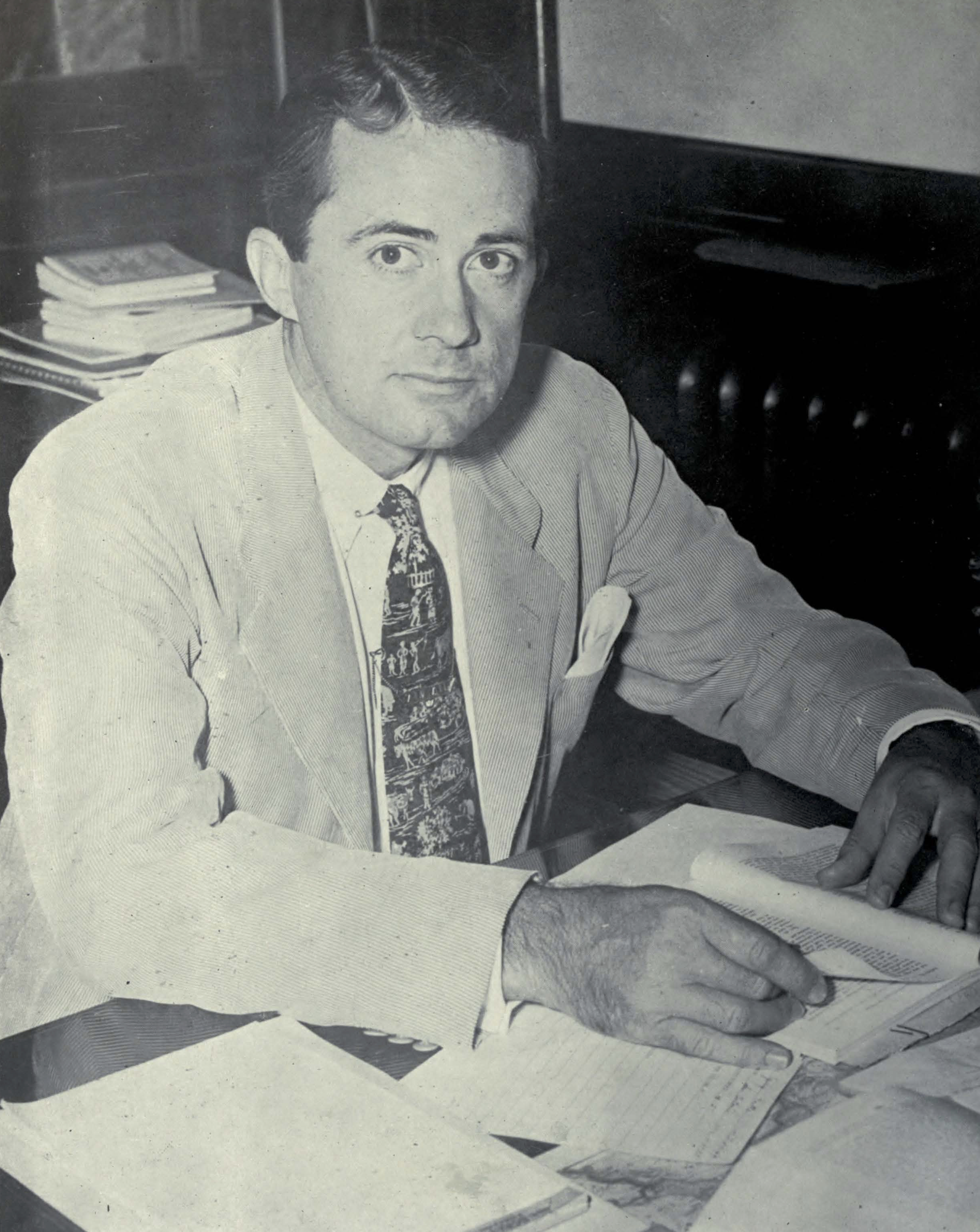 Allan Shivers, Governor of Texas